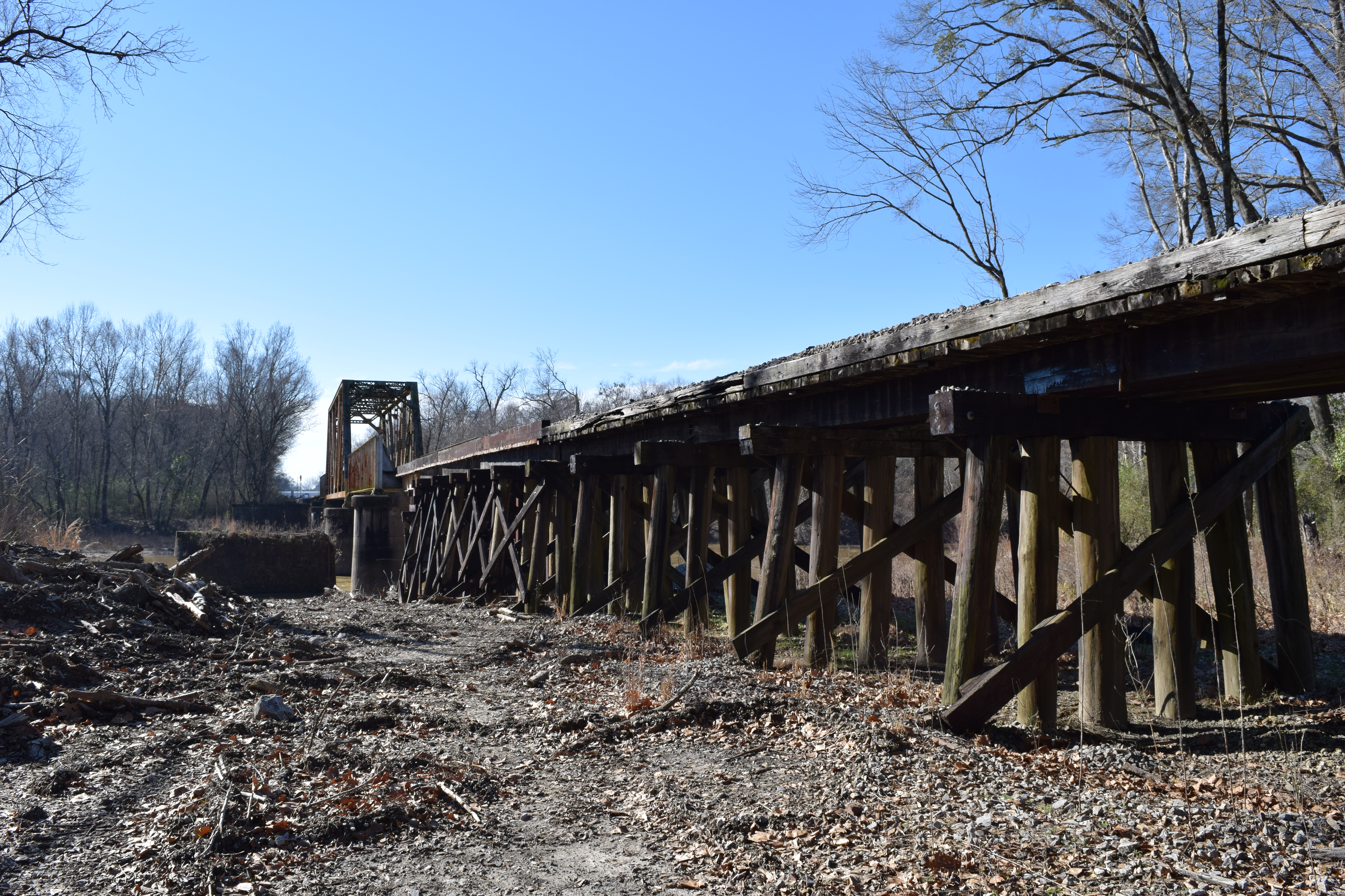 The Yalobusha River Bridge on the Grenada Railway in Grenada, Mississippi